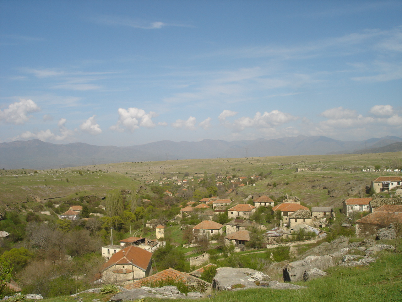 village of Beshishte in Mariovo region, Macedonia